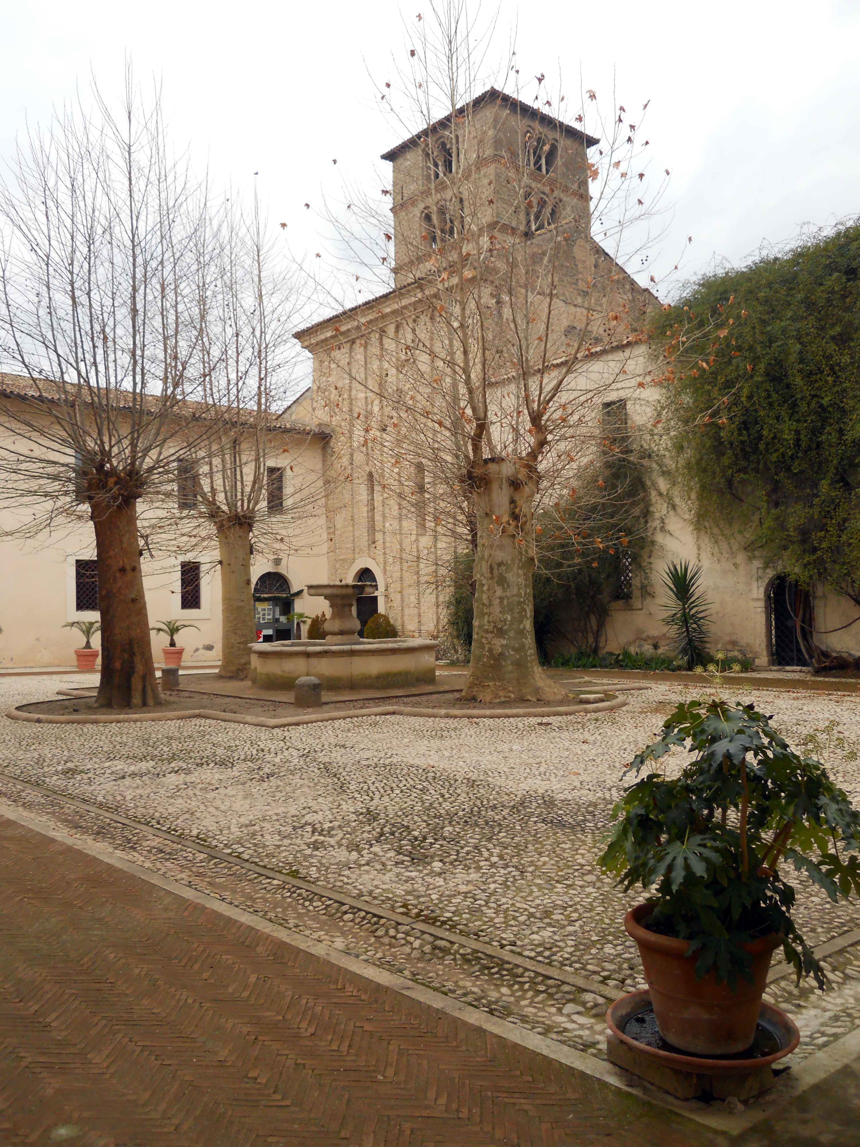 Court of Farfa Abbey (Lazio, Italy)